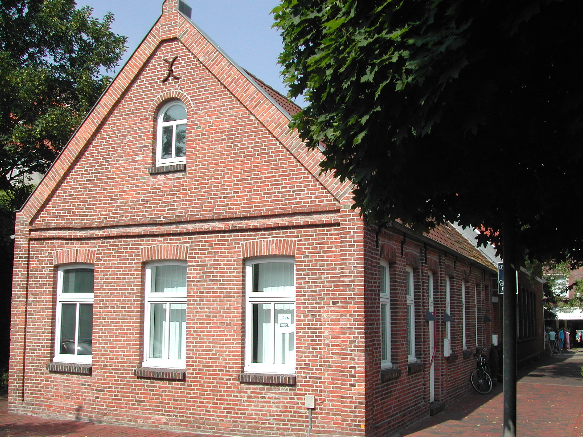 Former jewish school in Norden, East Frisia.